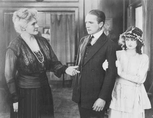 Left to Right: Elinor Hancock, Tom Forman, and Vivian Martin in A Kiss for Susie (1917) - publicity still